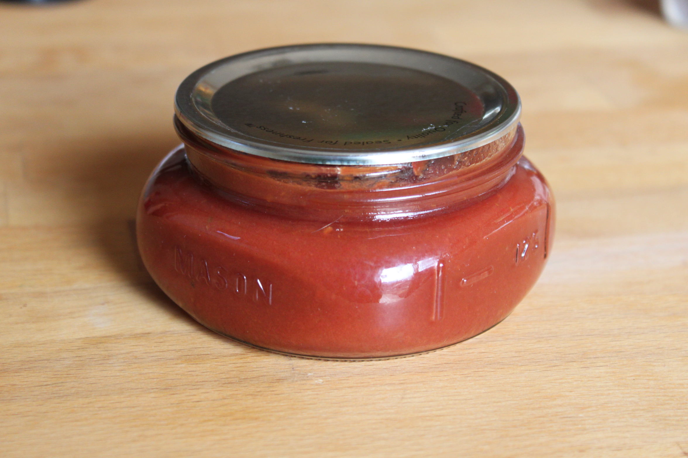 homemade ketchup canned